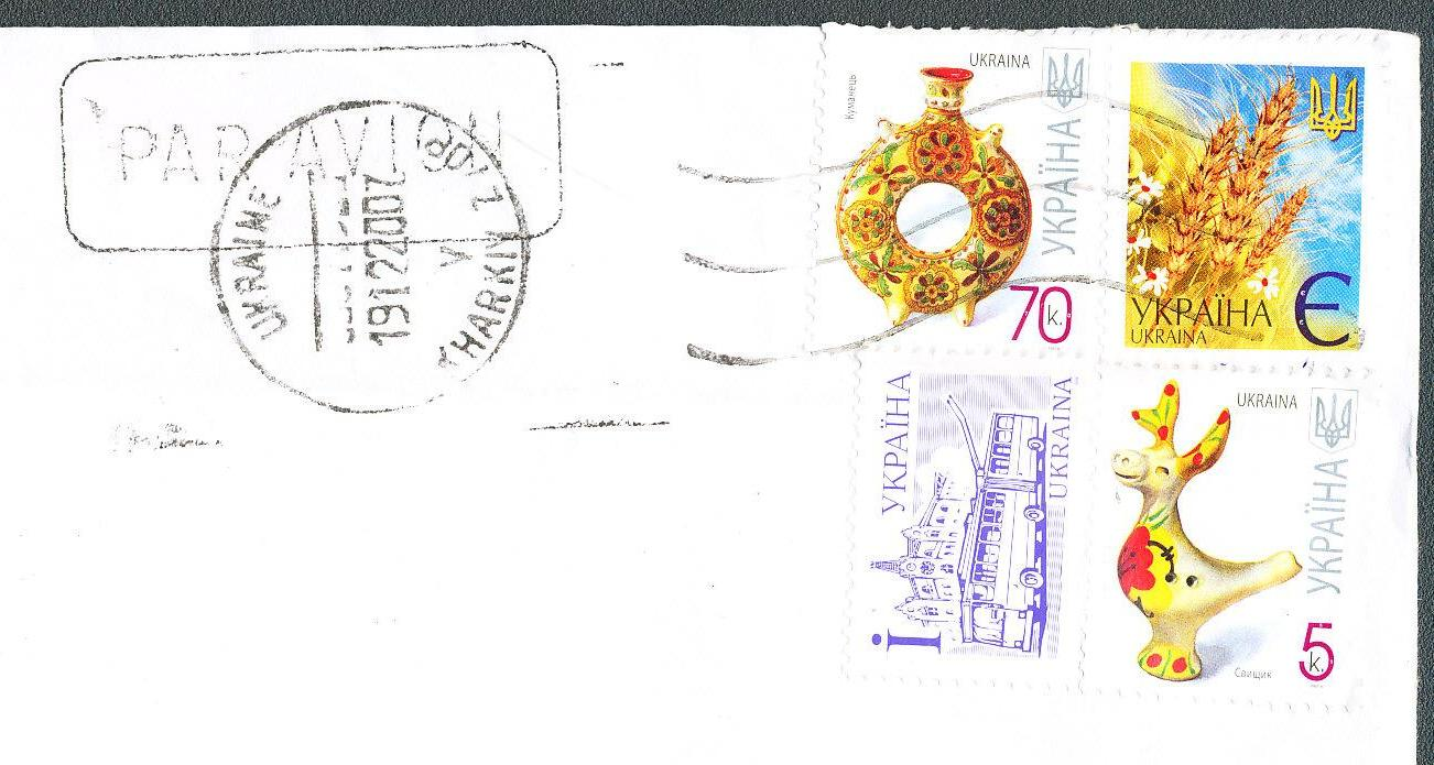 A fragment of 2007 airmail letter sent from Ukraine to the U.S. with Ukraine postage stamps.